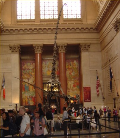 Interior of the American Museum of Natural History in New York. Self made.